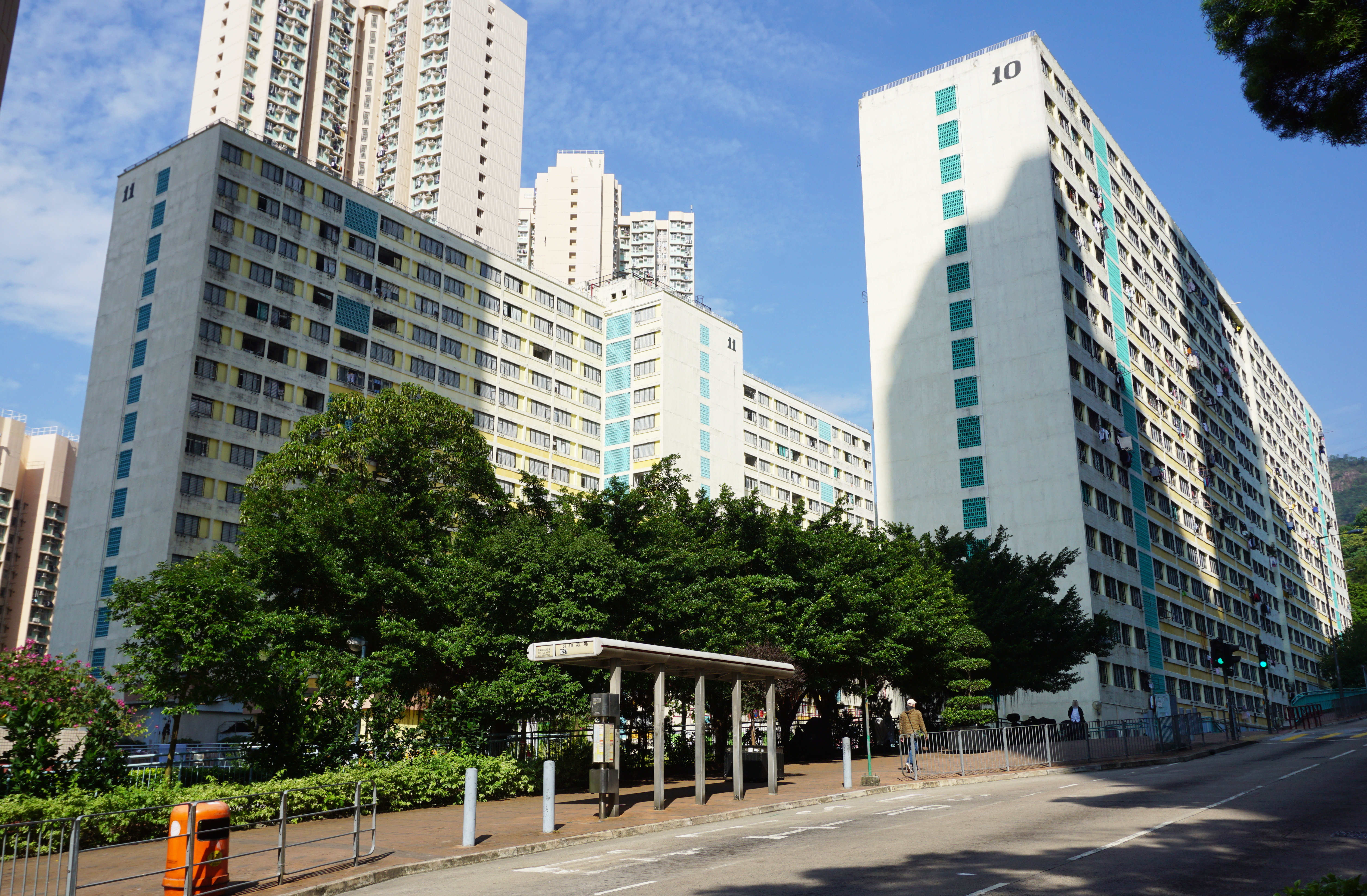 Shek Lei Interim Housing in Kwai Chung, Hong Kong.